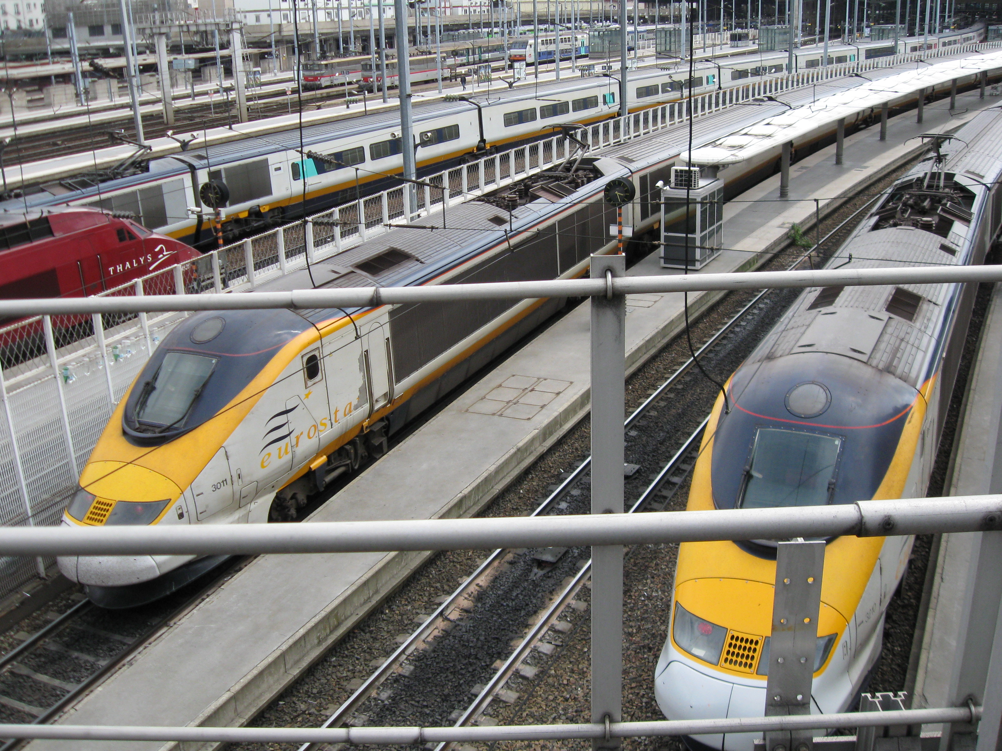 Eurostars gathered at platforms at Paris Gare de Nord